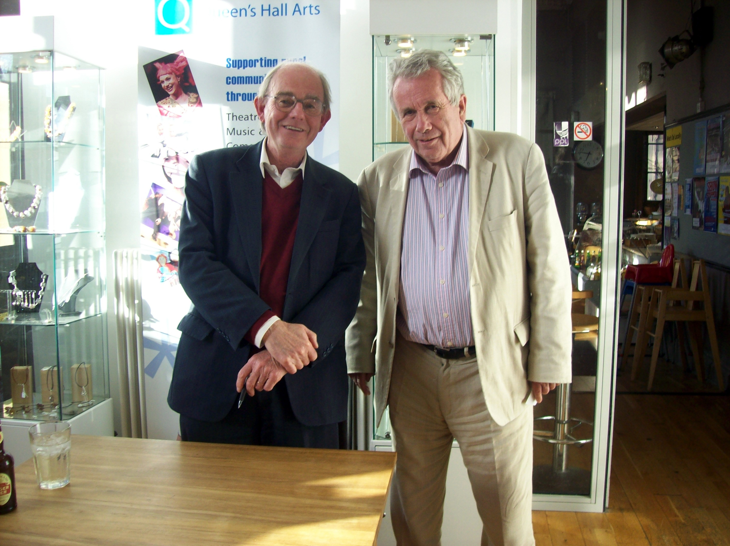 Chris Mullin was signing my copy of his diary "A View From The Foothills" when Martin Bell popped out from the cafe to have a word with him, both were kind enough to indulge my picture request. I have been meaning to read Chris Mullin's diary for years - it was first published in 2009 and is now in its 14th. reprint. The diary reminded me of Harold Nicholson's "Diaries And Letters" covering 1939-1962 both enjoyed ringside seats close to the inner workings of government without exposure to potentially distorting legacy-concerns of the highest-offices. Comparing Mullin with Nicholson's diaries highlights just how much modern political diary-keeping has become a more personally confessional business.. (I wonder who will be scribbling away at a similar record of our coalition experiment)? I admire these two men, for their honourable contributions to the body politic. Martin Bell was the anti-sleeze MP for Tatton and Chris Mullin's parliamentary expenses claims were notorious for their modesty being among the most lowest on record: famously featuring the indulgence of a £45 black & white TV license for his London office. Parliament is a poorer place without them but they do demonstrate an old political truism (I just invented it), that if you want a good MP, don't vote for a snappy dresser! I have two of Martin Bell's books: An Accidental MP, which he kindly signed for me at the Keswick Literature Festival in 2007 and his journalistic title: Through The Gates Of Fire - A Journey Through World Disorder, fortunately things are pretty settled in Hexham.